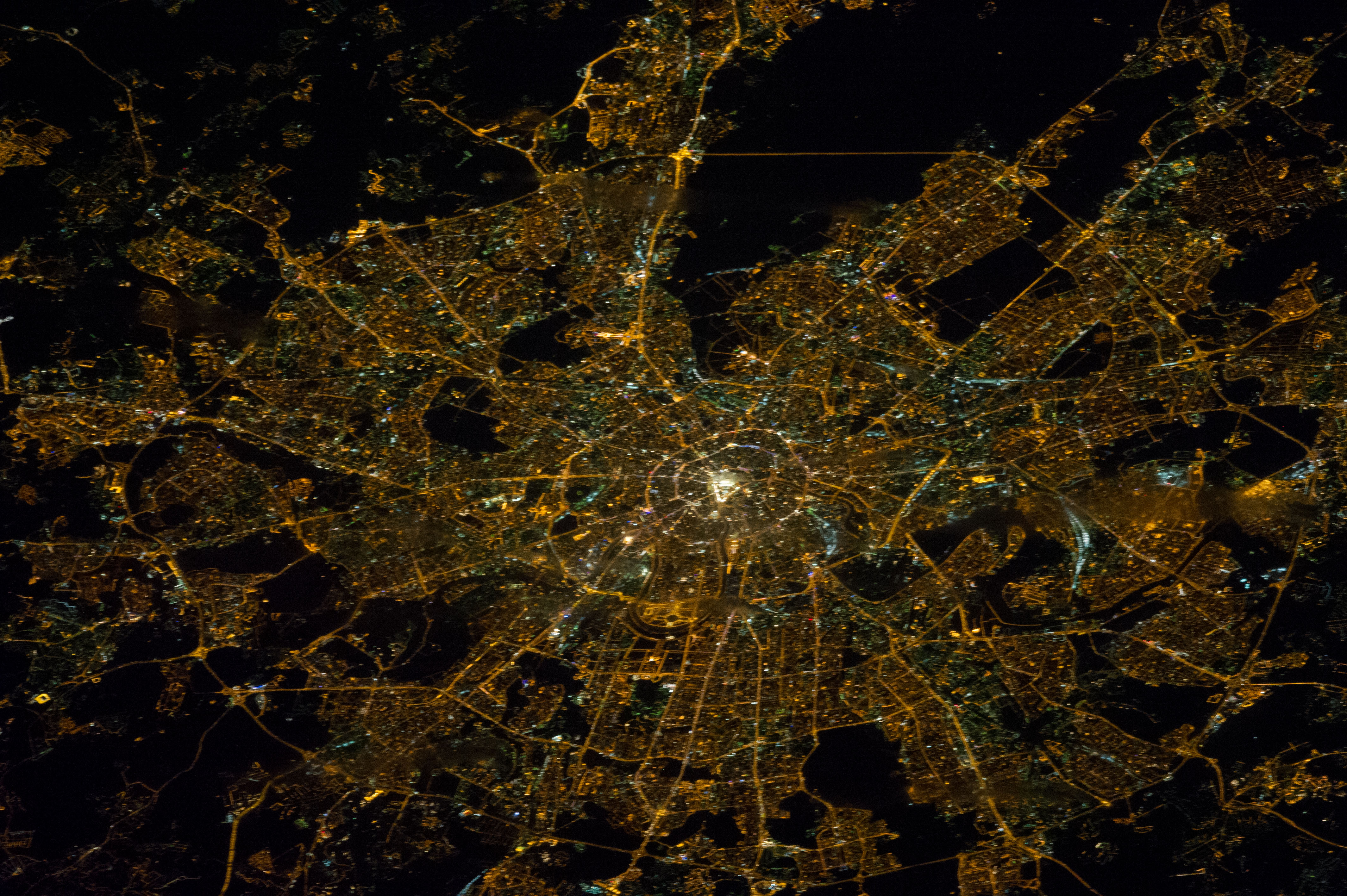 The spiderlike shape of Moscow, Russia occupies most of this nighttime image photographed by the Expedition 38 crew members aboard the International Space Station. The orbital outpost was at an altitude of about 240 miles (386 kilometers) when a crew member recorded this image on Jan. 29, 2014.